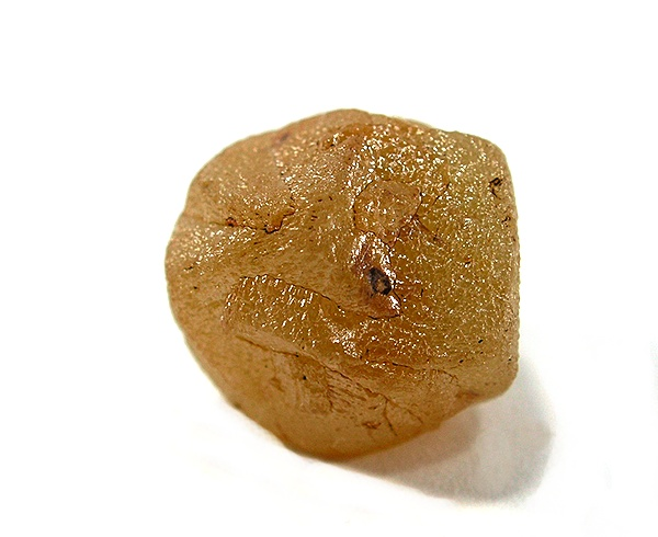 Diamond Locality: Miba Mine, Mbuji Mayi (Bakwanga), Kasaï-Oriental, Democratic Republic of Congo (Zaïre) (Locality at ) A stunning, bright yellow diamond crystal composed of translucent, penetration- twinned cubes intergrowing with each other. The overall effect is striking and very symmetrical in person . It is complete all around and very 3-dimensional. Old specimen ex. Gilbert Gauthier stock (which is where the unusually good locality data came from) 25.24 carats: 14 x 13 x 12 mm